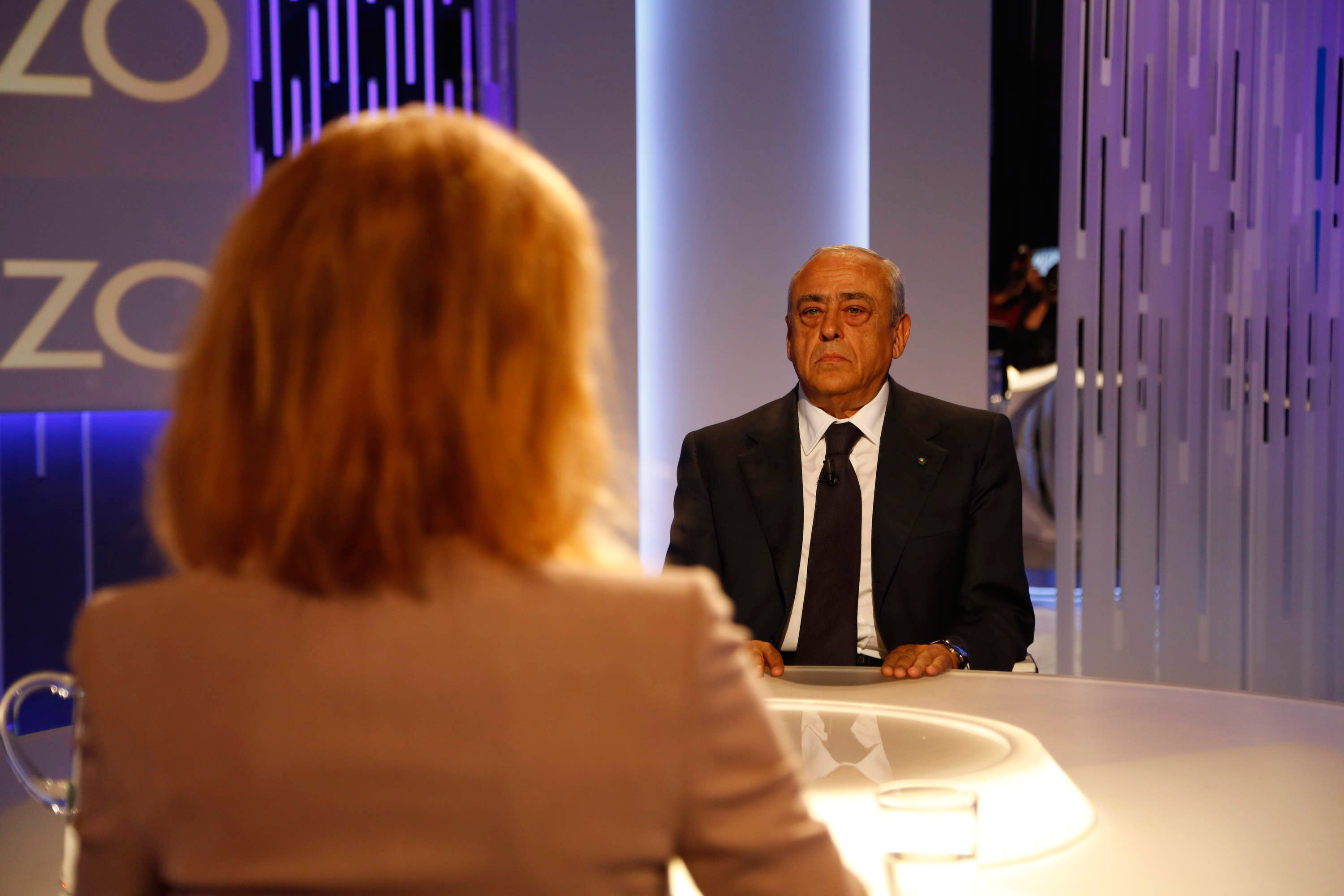 President Francesco Gaetano Caltagirone at the studios of La7 TV, program "Otto e Mezzo" by Lilly Gruber.